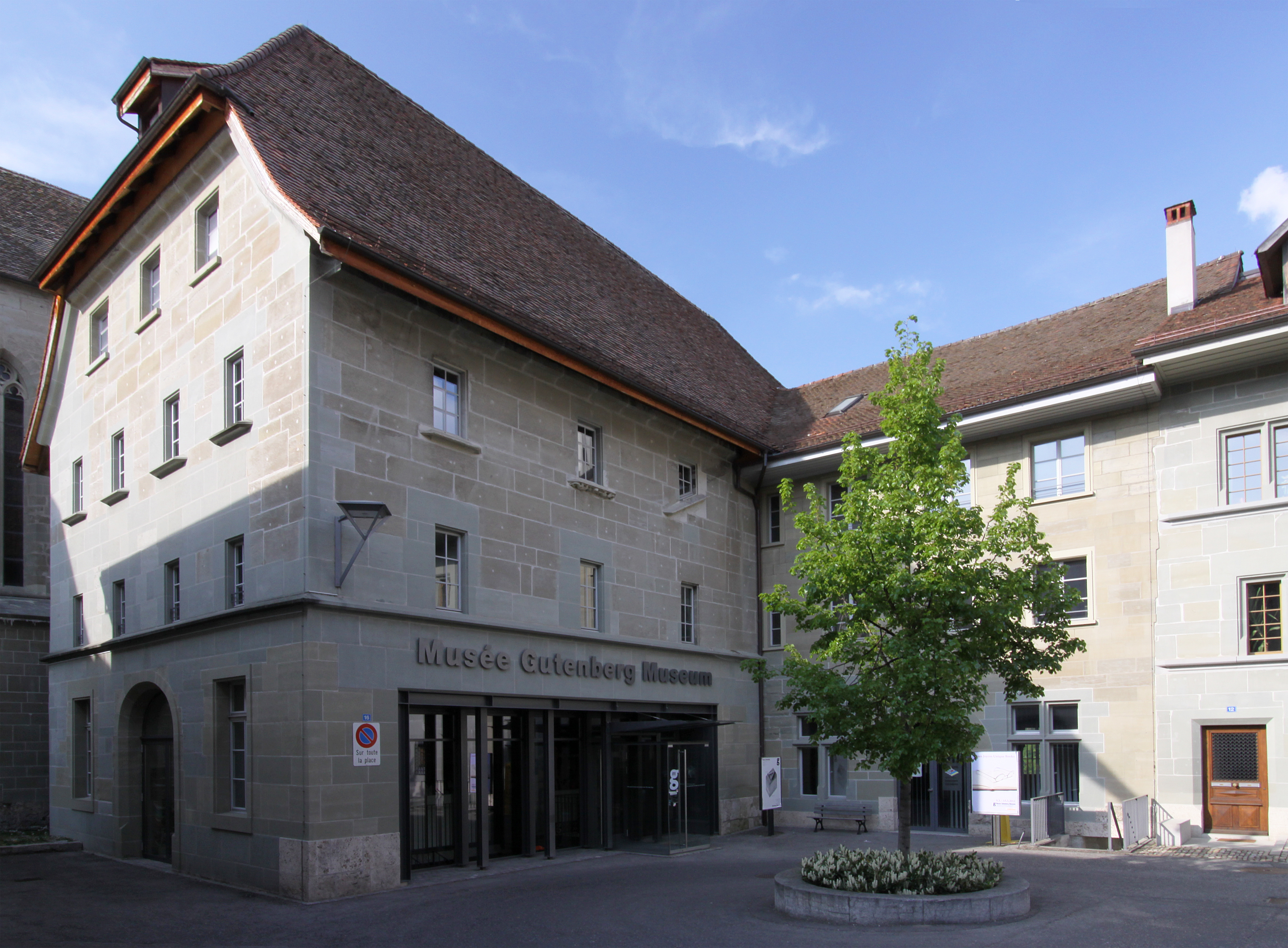 Gutenberg Museum, Swiss Museum of Graphic Arts and Communication, Place Notre-Dame 14–16, 1702 Fribourg